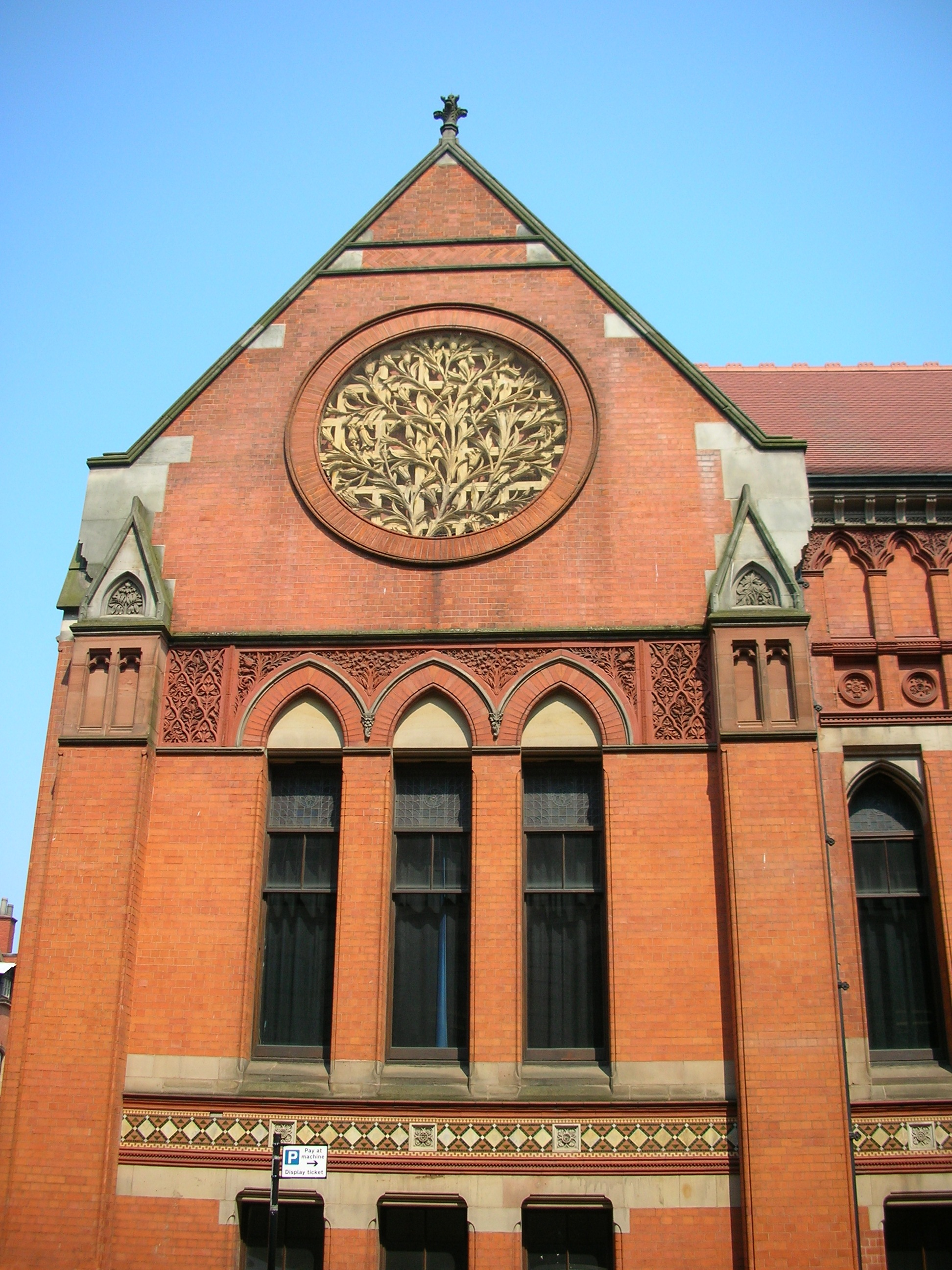 Birmingham School of Art, Margaret Street, Birmingham, England. The rose window, designed by J. H. Chamberlain (as was the building), was modelled by Samuel Barfield of Leicester. Credits Photographed by me 10 May 2006. Oosoom 13:52, 30 October 2006 (UTC)